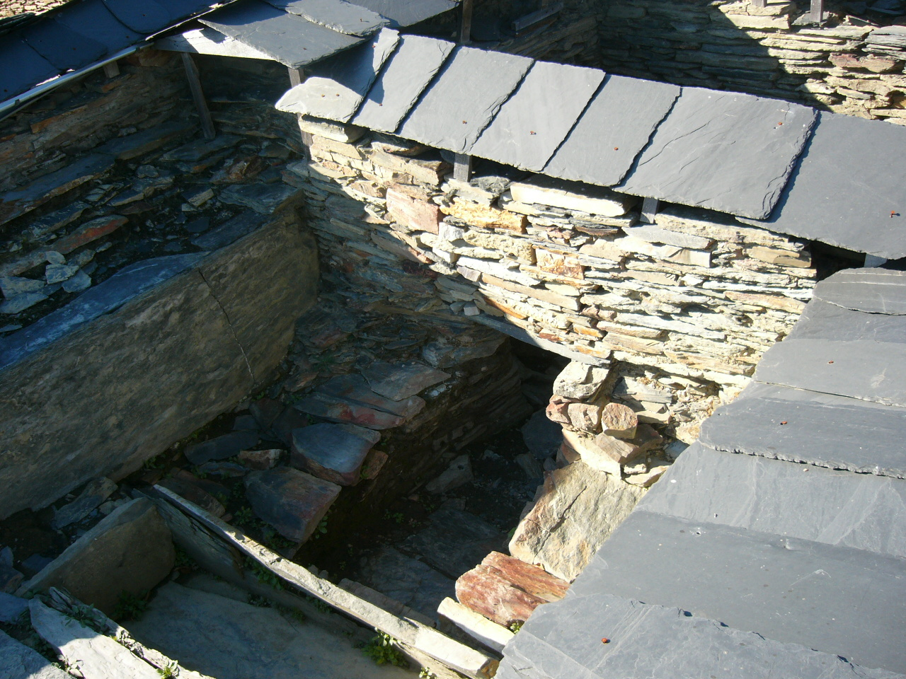 Thermae in Chao Samartín (Grandas de Salime - Asturies - Spain)